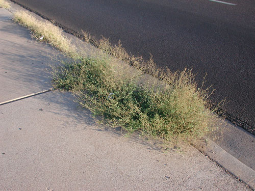 Boerhavia intermedia, curb side weed in Maricopa Co. Arizona, USA.